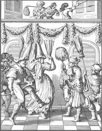 Purim revellers in costume, from a print originally in Leusden, Philologus Hebræo-Mixtus, 1657. Taken from the 1901-1906 Jewish Encyclopedia, now in the public domain.